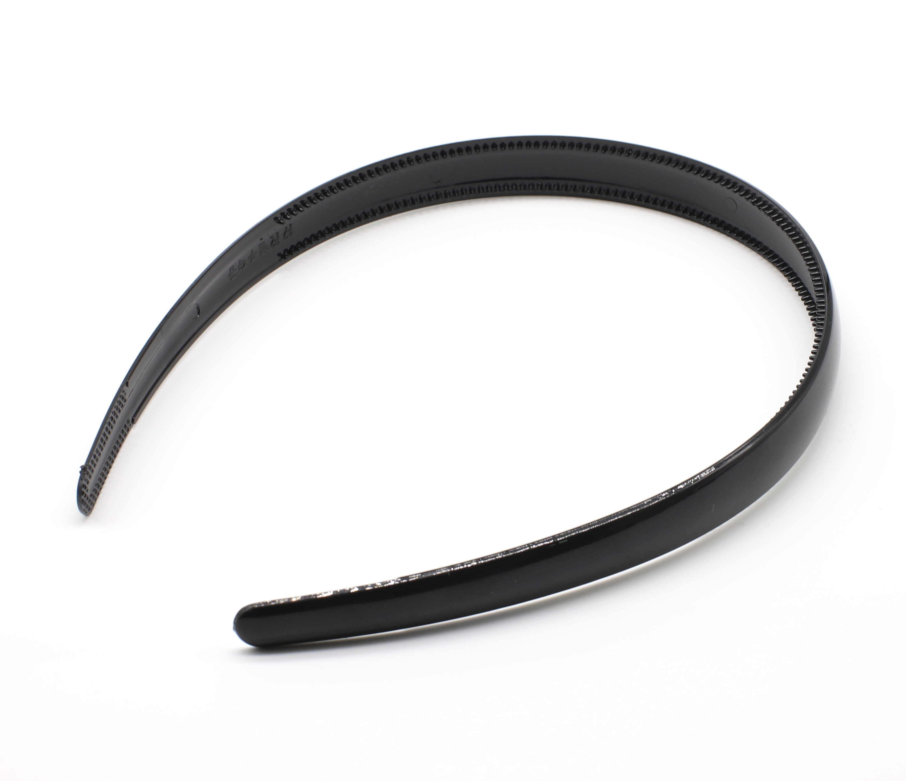 Photo of a simple black plastic hairband or headband or alice band